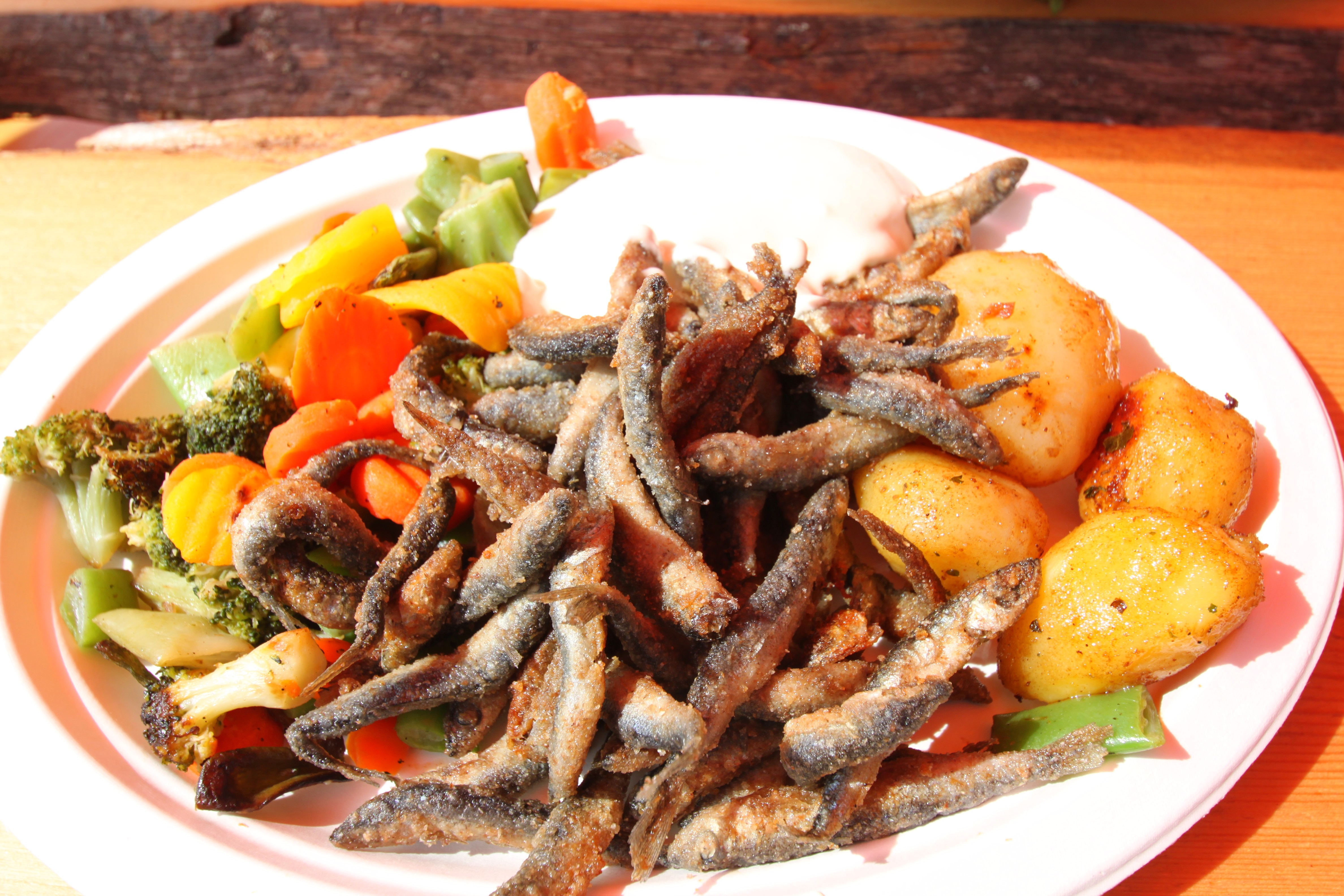 Neulamuikut on Market Square Kauppatori in Helsinki